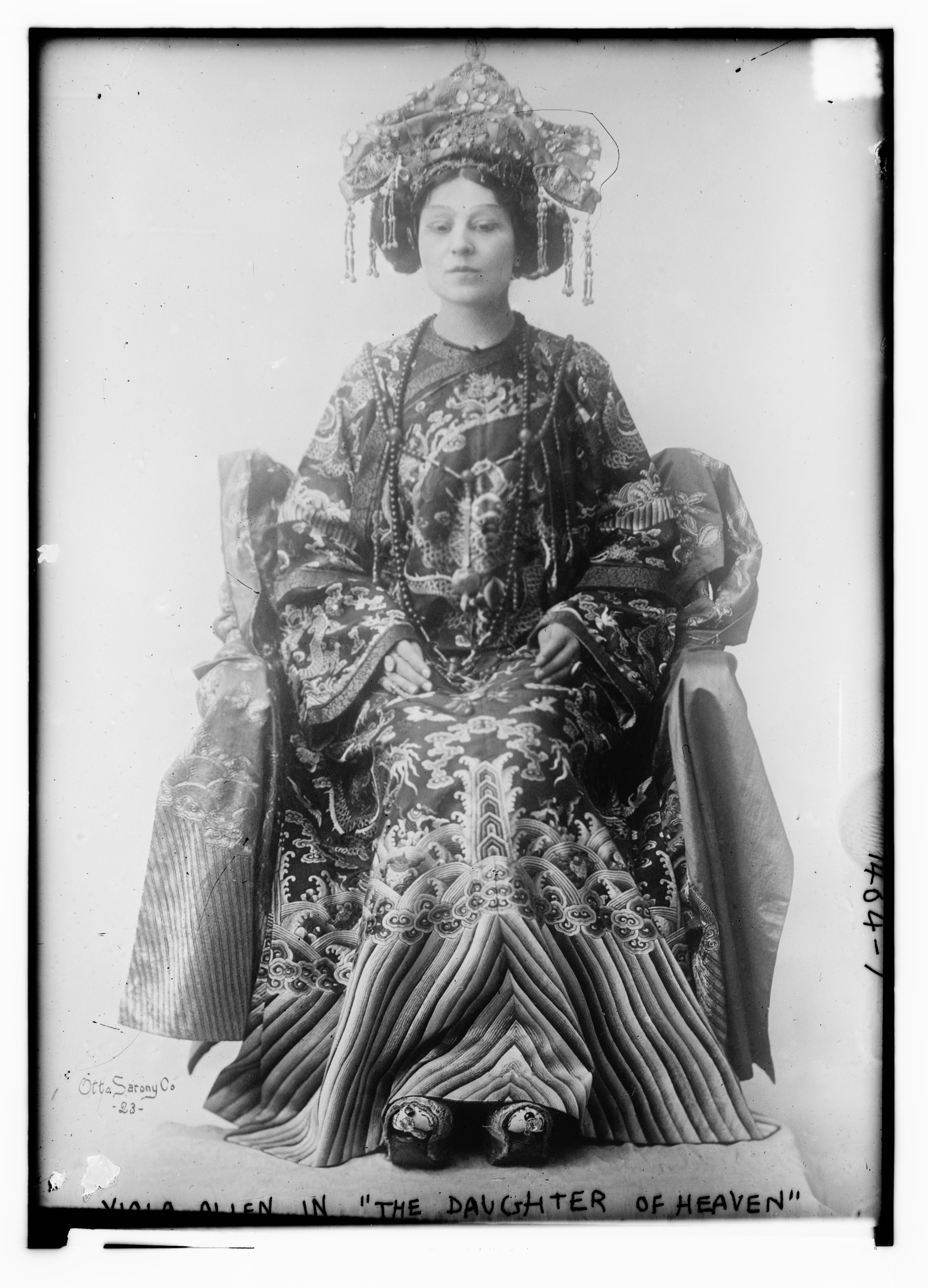 American actress Viola Allen (1869-1948) in "The Daughter of Heaven" ("La Fille du ciel"), a play by Pierre Loti and Judith Gautier (1911).